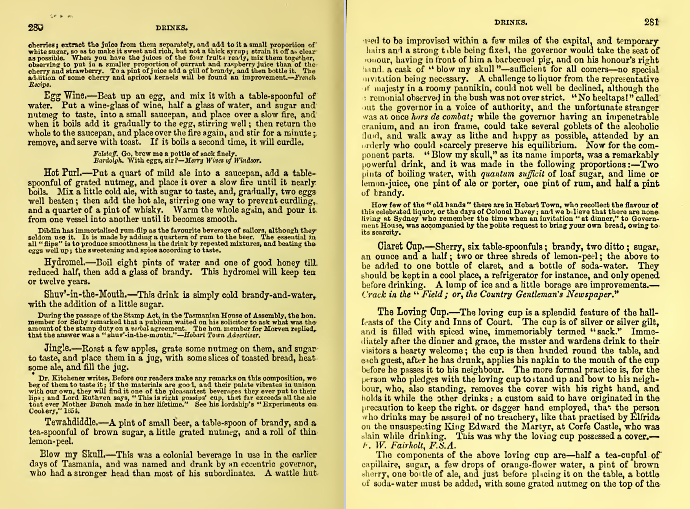 A page of the English and Australian Cookery Book